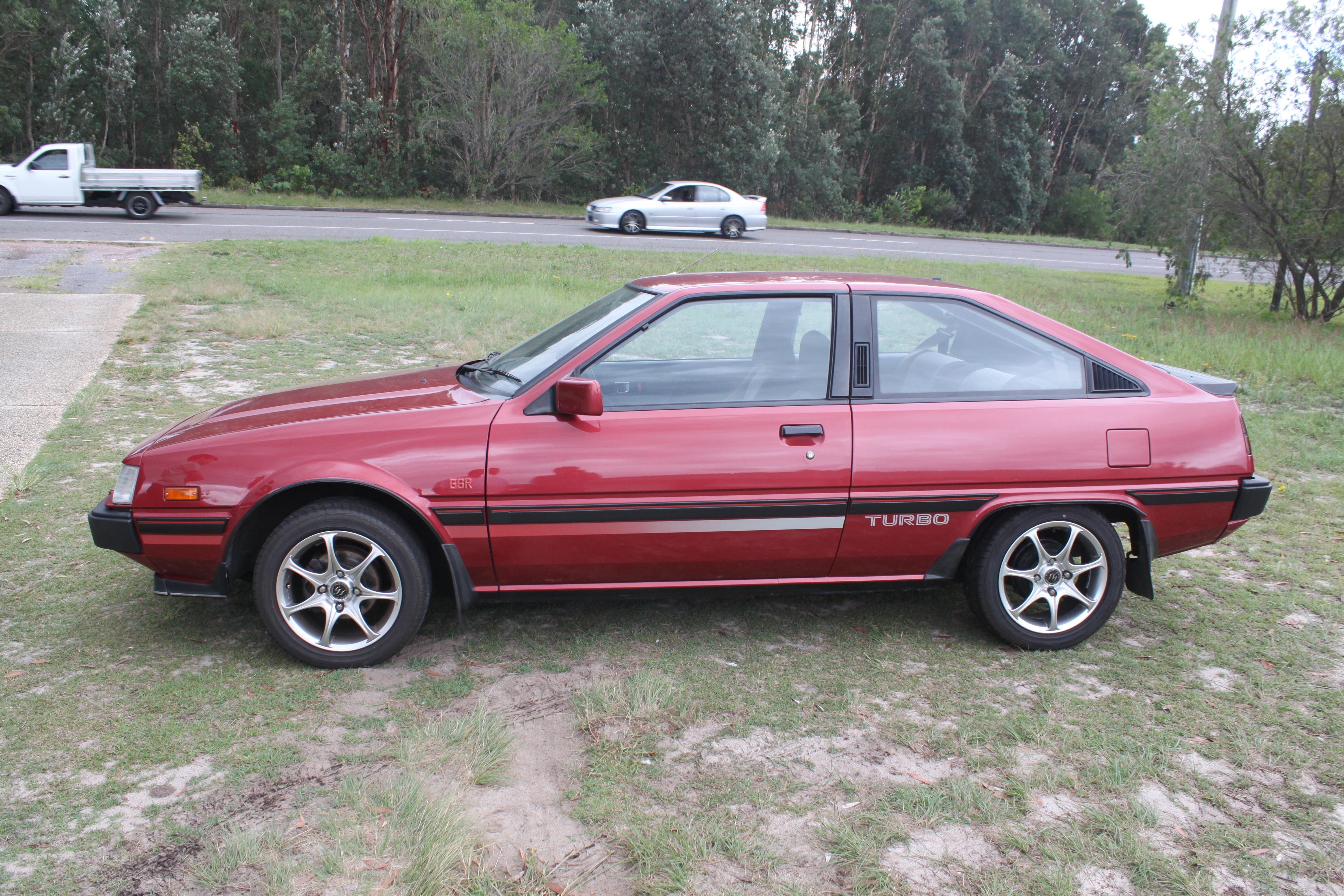 Mitsubishi Cordia AB Turbo